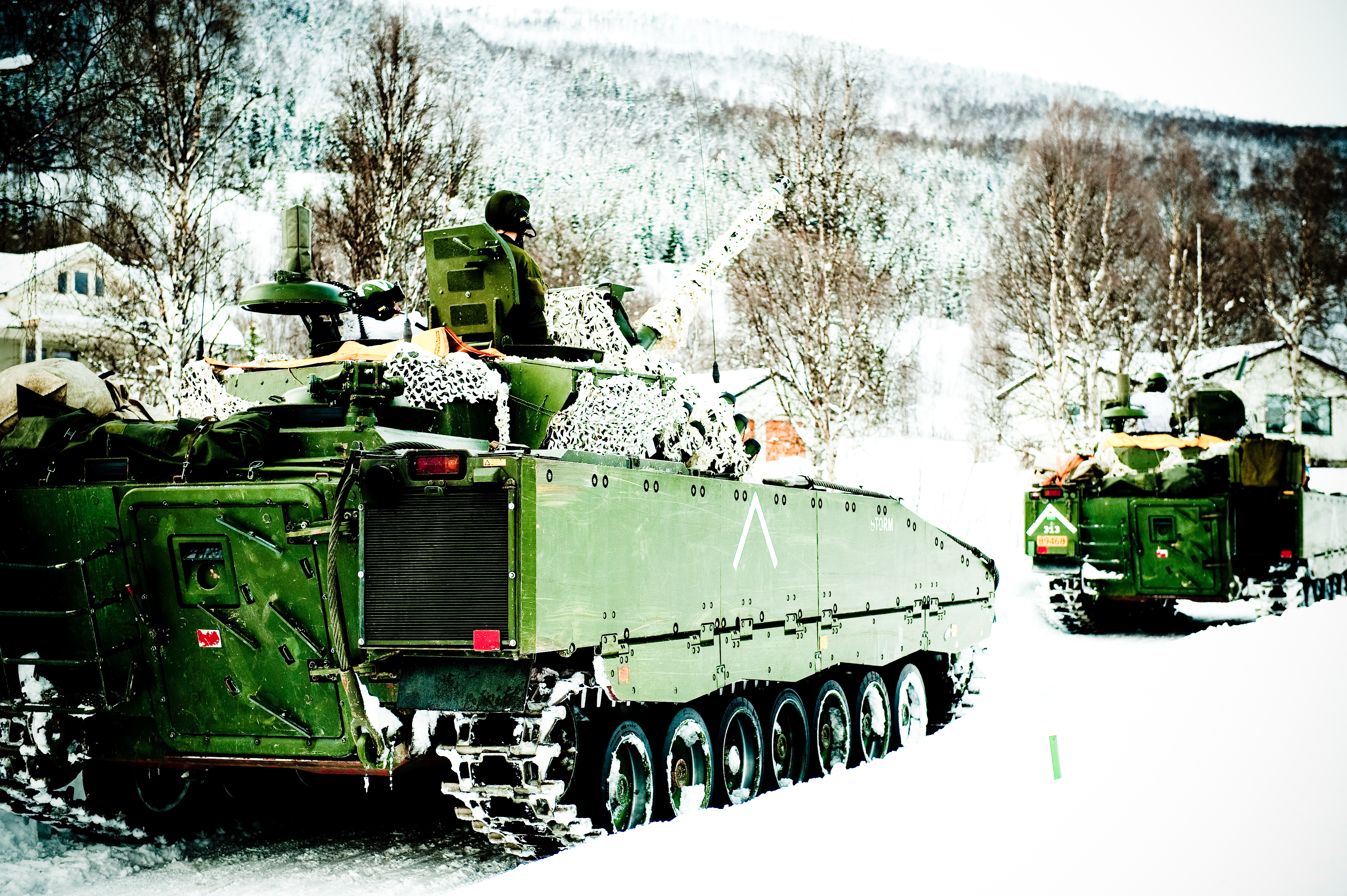 Picture of a Norwegian CV90 during Cold Challenge day 4, 2007. Photographer: Tobias TofteNorsk nynorsk: Bilete av ein norsk stormpanservogn CV90 under Cold Challenge dag 4, 2007. Fotograf: Tobias Tofte